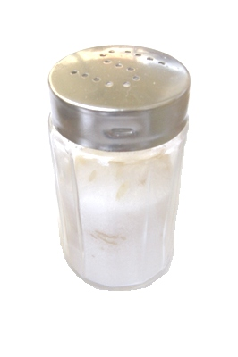 Salt shaker, transparent background